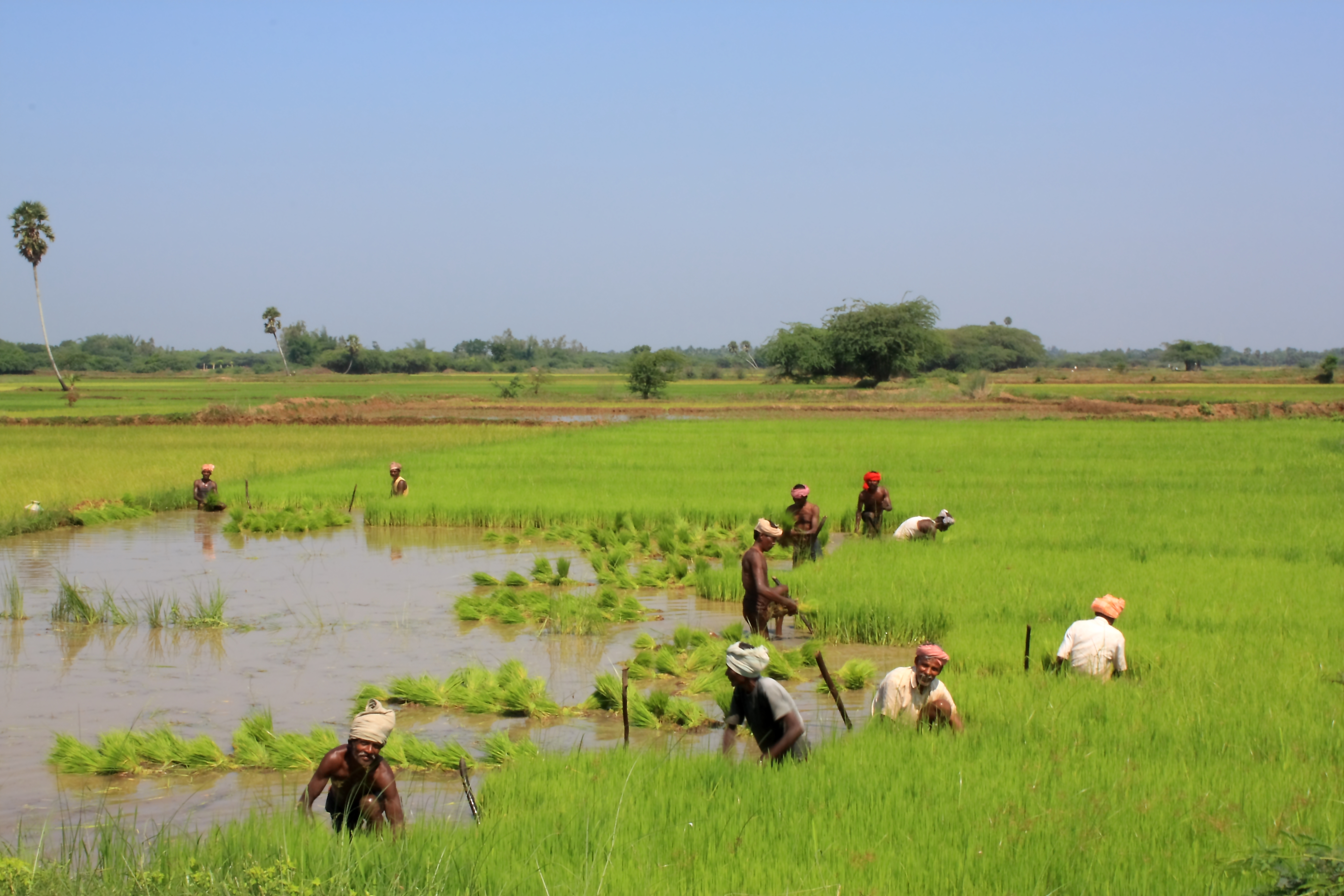 Paddy Fields in Thanjavur district of Tamil Nadu